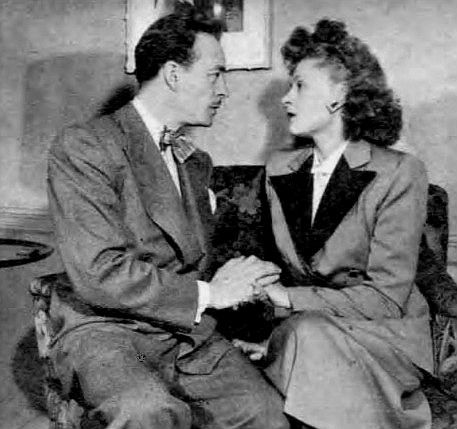 Photo of Florence Freeman and Les Tremayne as Wendy Warren and Gil Kendal from the radio daytime drama Wendy Warren and the News.